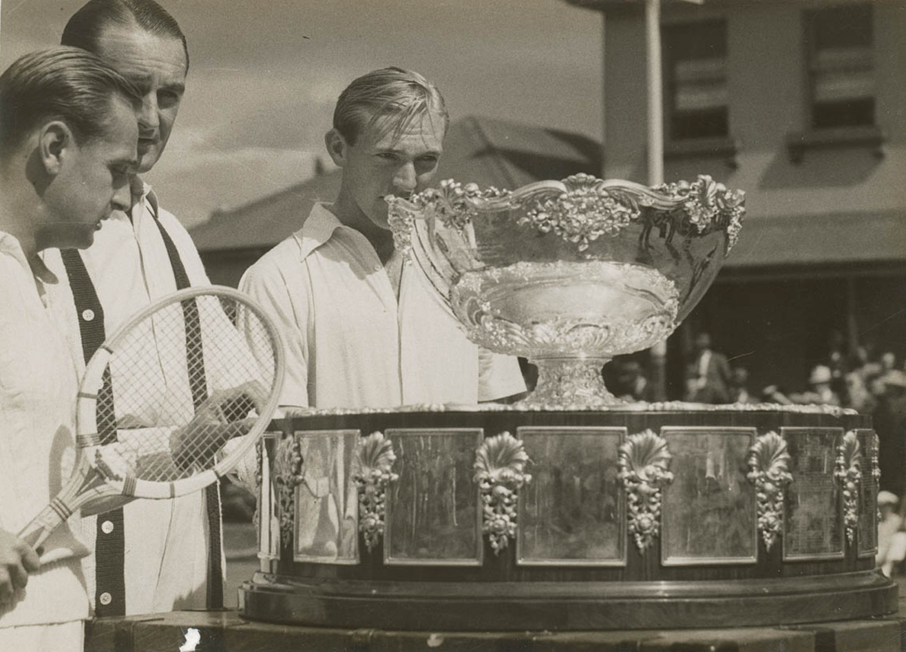 Australians John Bromwich and Adrian Quist won the final of the Davis Cup at the Merion Cricket Club in Haverford, PA, United States on 2-5 September 1939, against a team of four Americans. To 2011, the United States had won the Davis Cup 32 times, Australia 28 times and Great Britain and France 9 times each. Today the base of the Cup is much higher to accommodate all the winners' plates Format: Photograph Find more detailed information about this photographic collection: .au/item/itemDetailPaged.aspx?itemID=153771 From the collection of the State Library of New South Wales